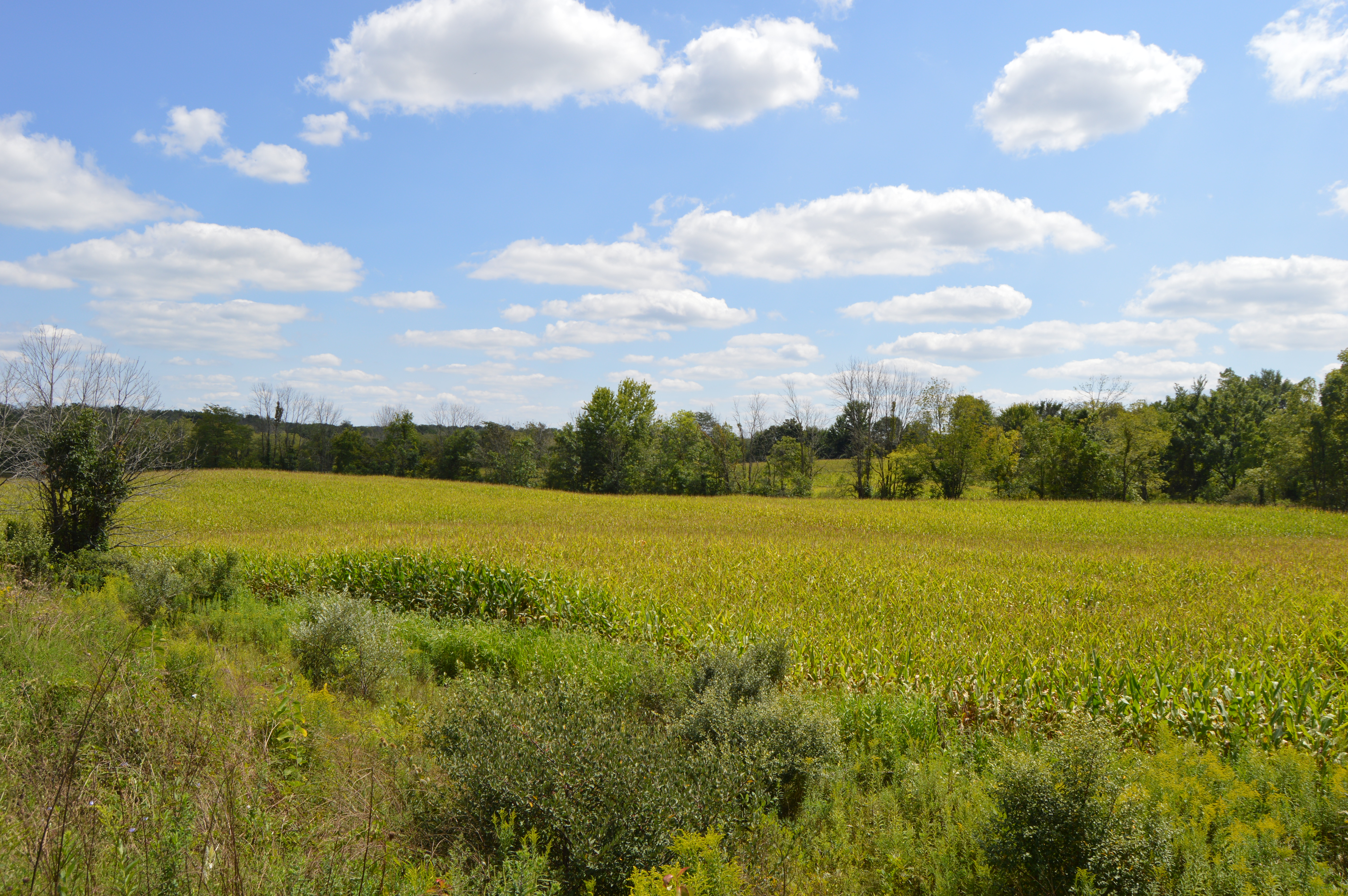 Looking southeast from the junction of County Road 26 and Township Road 179 in Harmony Township, Morrow County, Ohio, United States.